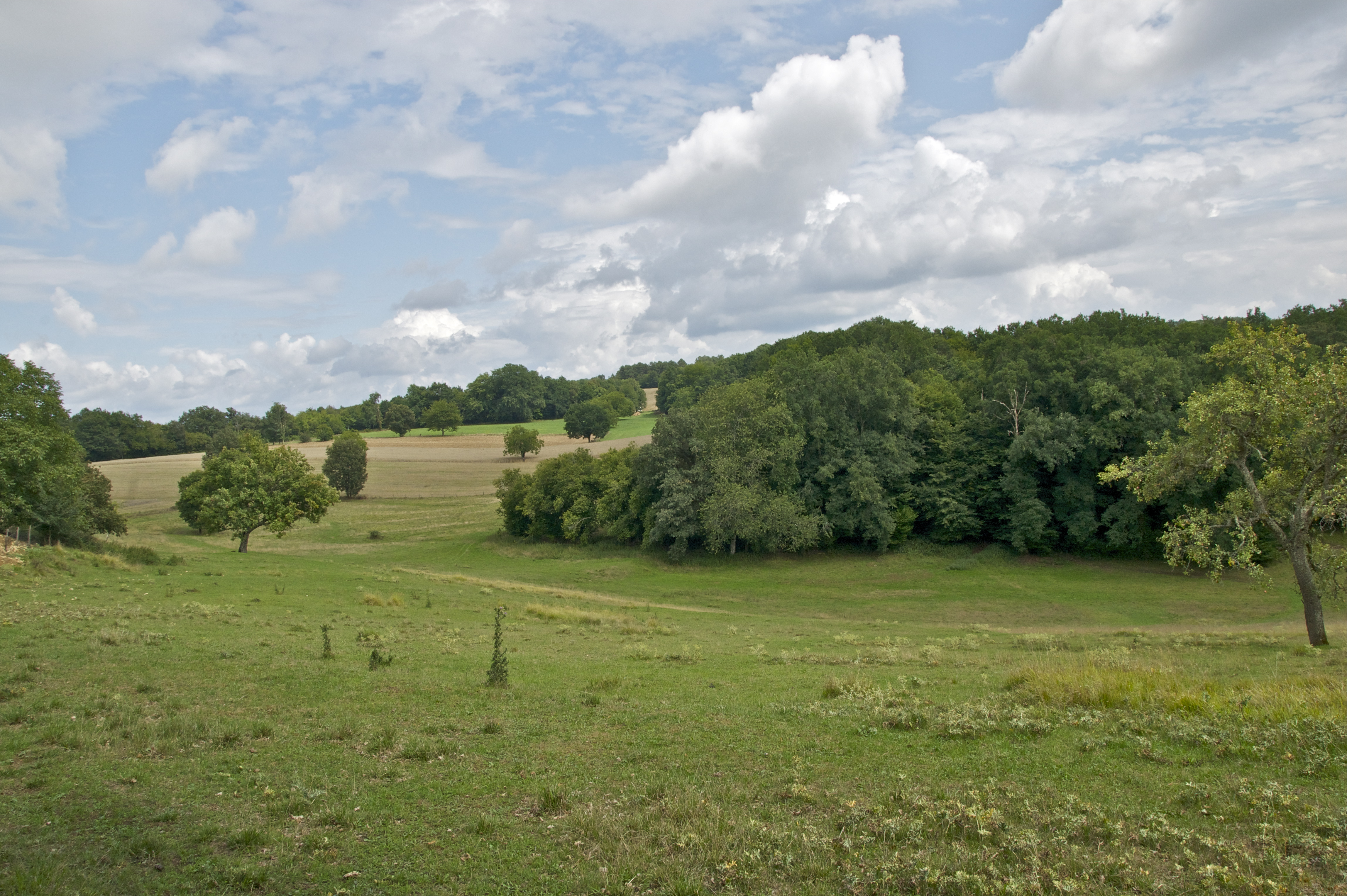 Typical landscape of Périgord, Rouffignac-Saint-Cernin-de-Reilhac, Dordogne, France.